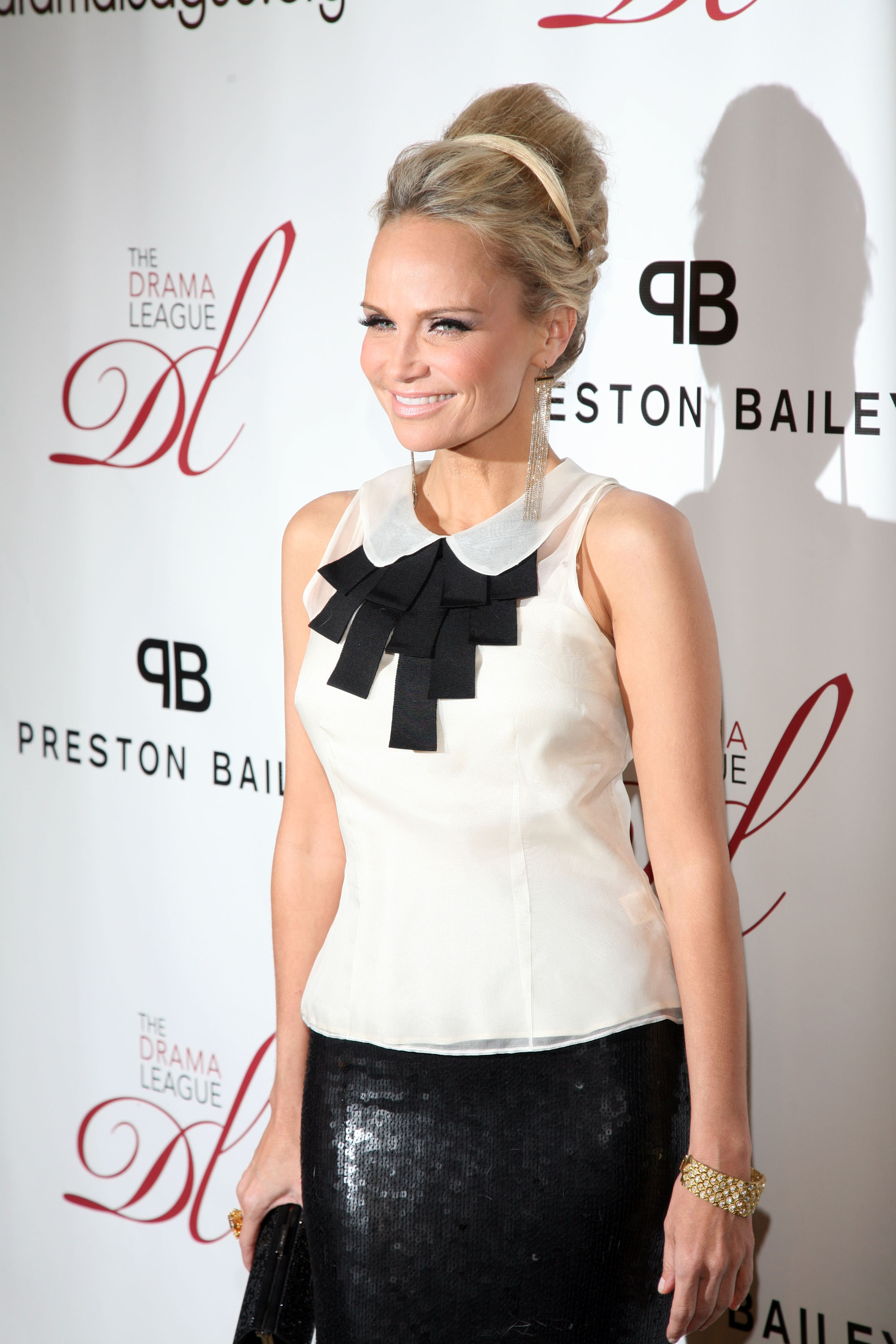 Kristin Chenoweth at the 2012 Drama League Benefit Gala.